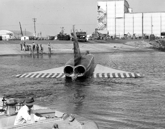 Convair F2Y Sea Dart at rest.